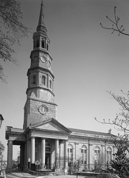 St. Michael's Episcopal Church (Charleston, South Carolina) (cropped)